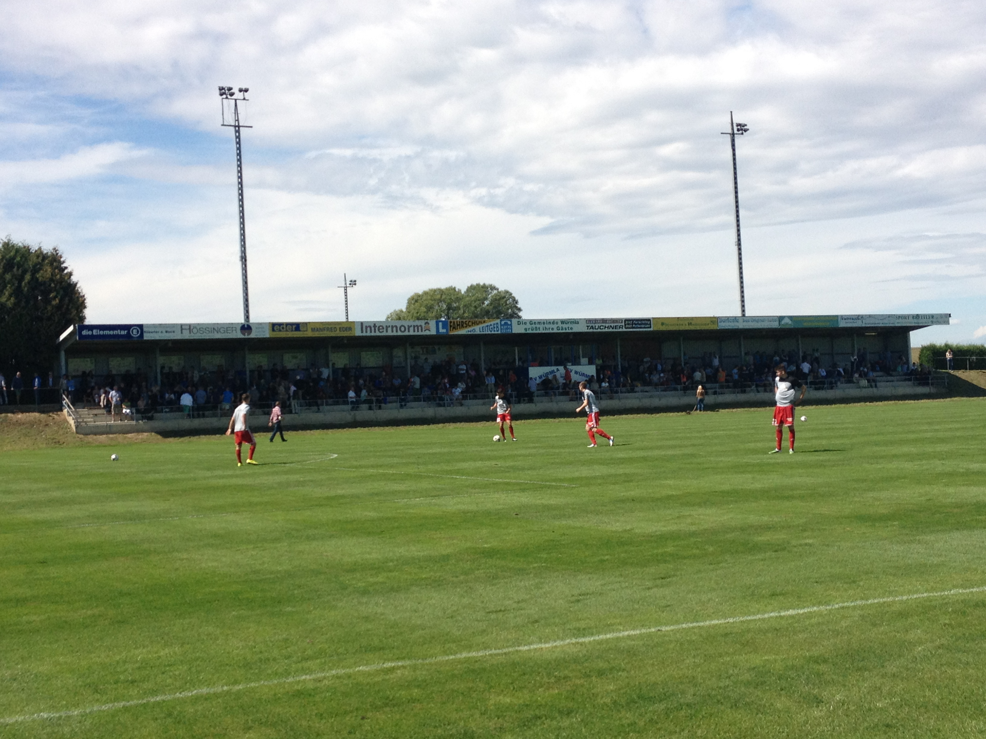 The mainstand from the austrian Footballclub SV Würmla